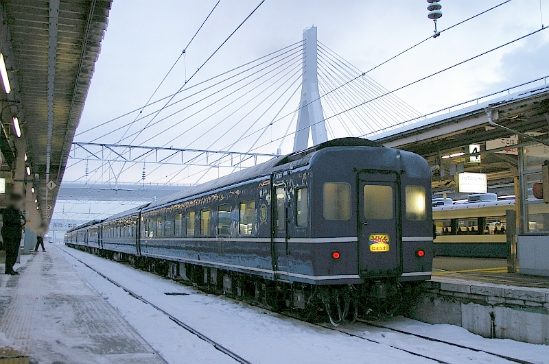 14 series sleeping car at the rear of the Hamanasu overnight express train service at Aomori Station